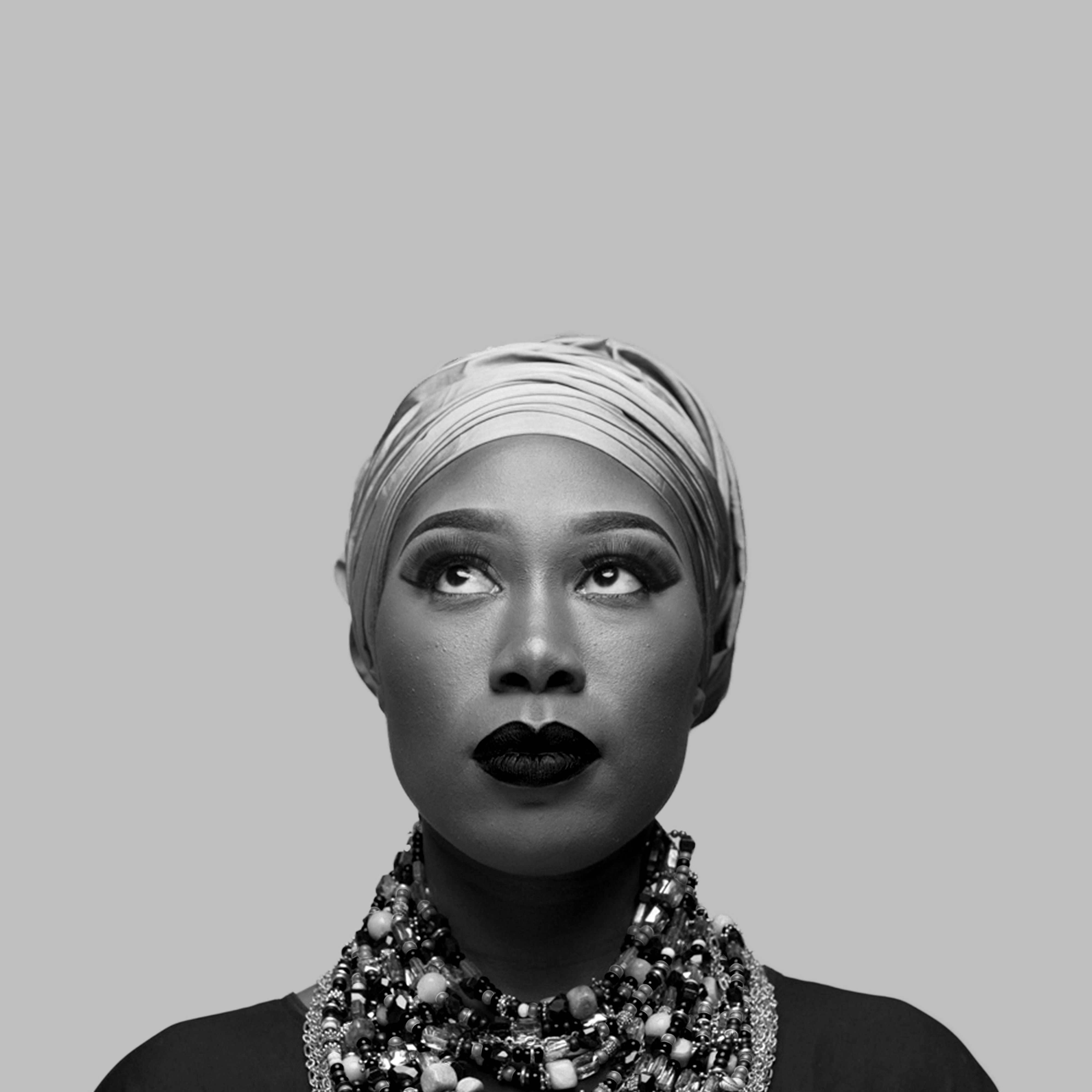 Portrait of Lindsey Abudei